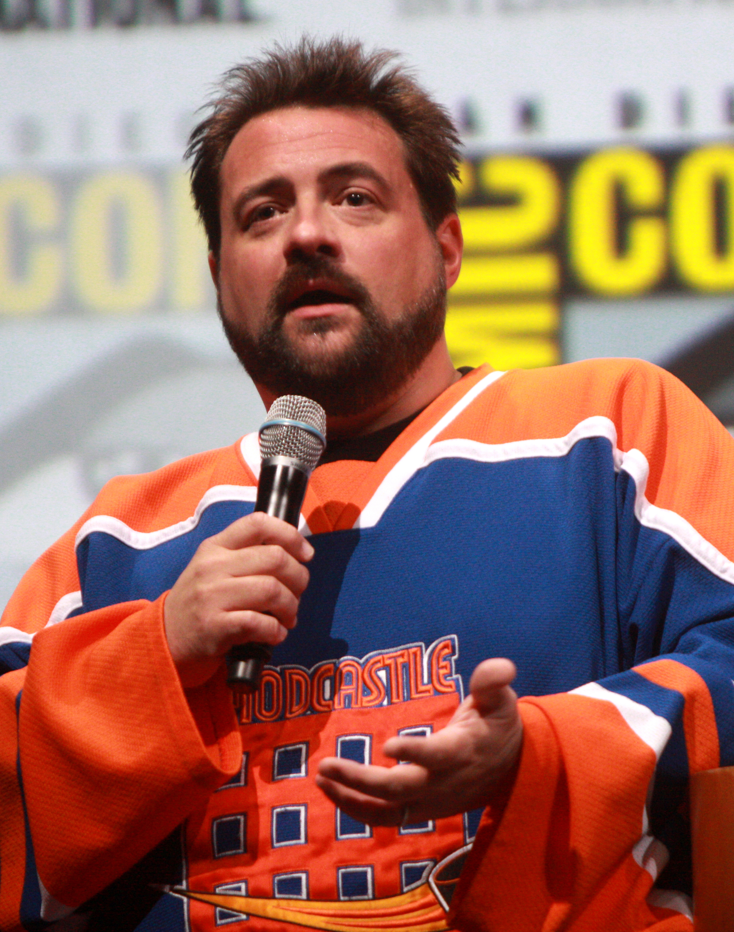 Kevin Smith at the 2013 San Diego Comic Con International in San Diego, California.